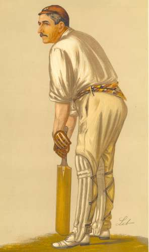 Walter Read the cricketer in a contemporary print